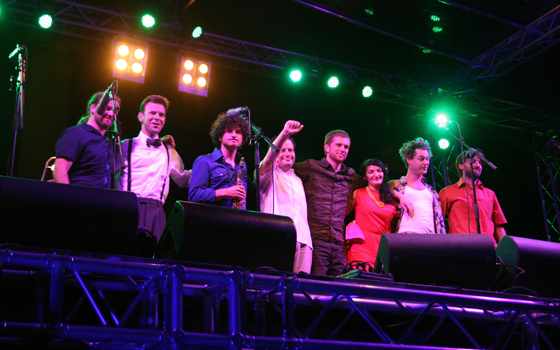 Fatima Spar and The Freedom Fries at Popfest 2012 in Vienna, Austria.